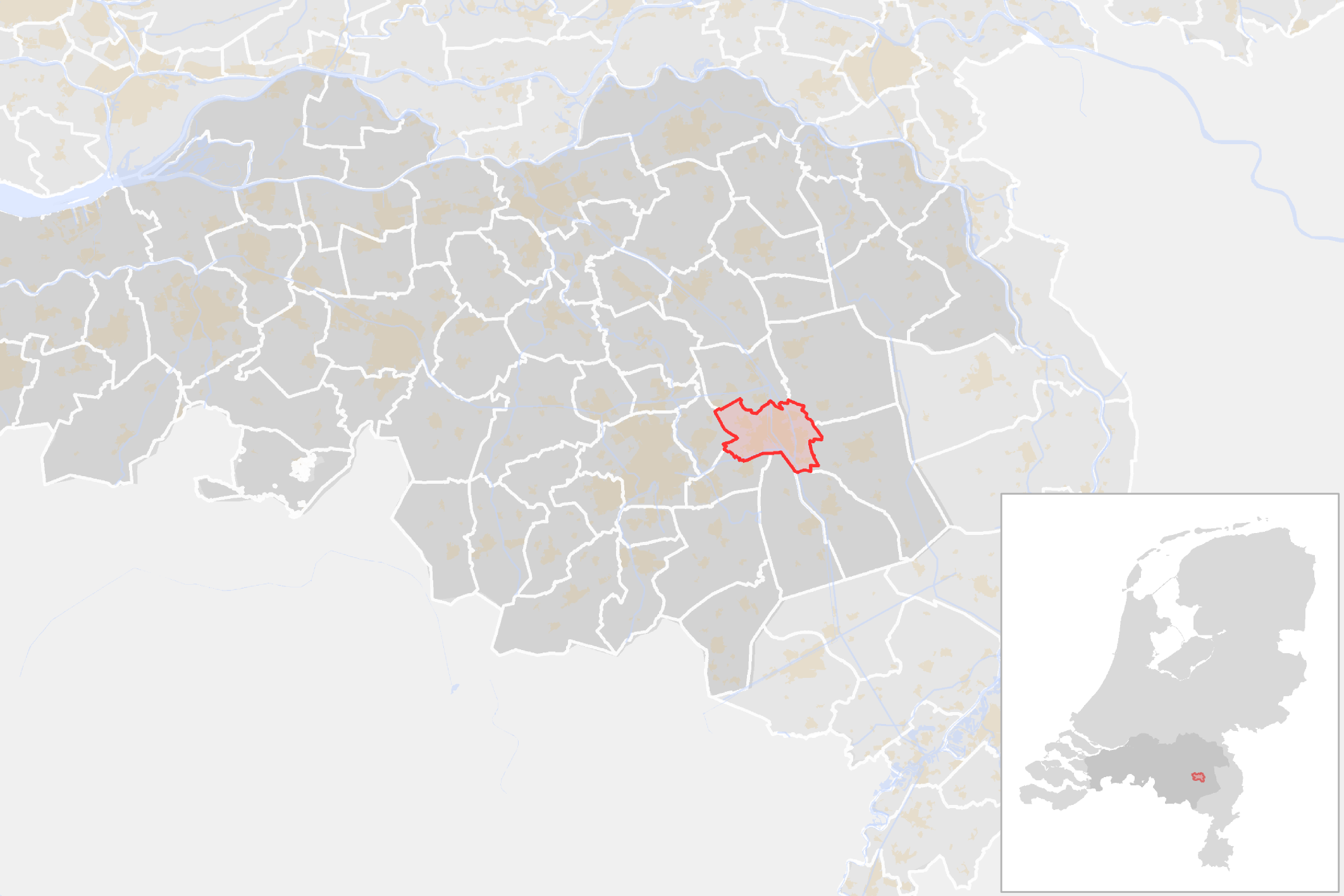 Locator map showing municipality boundary of one of the 390 Dutch municipalities (as of 2016)